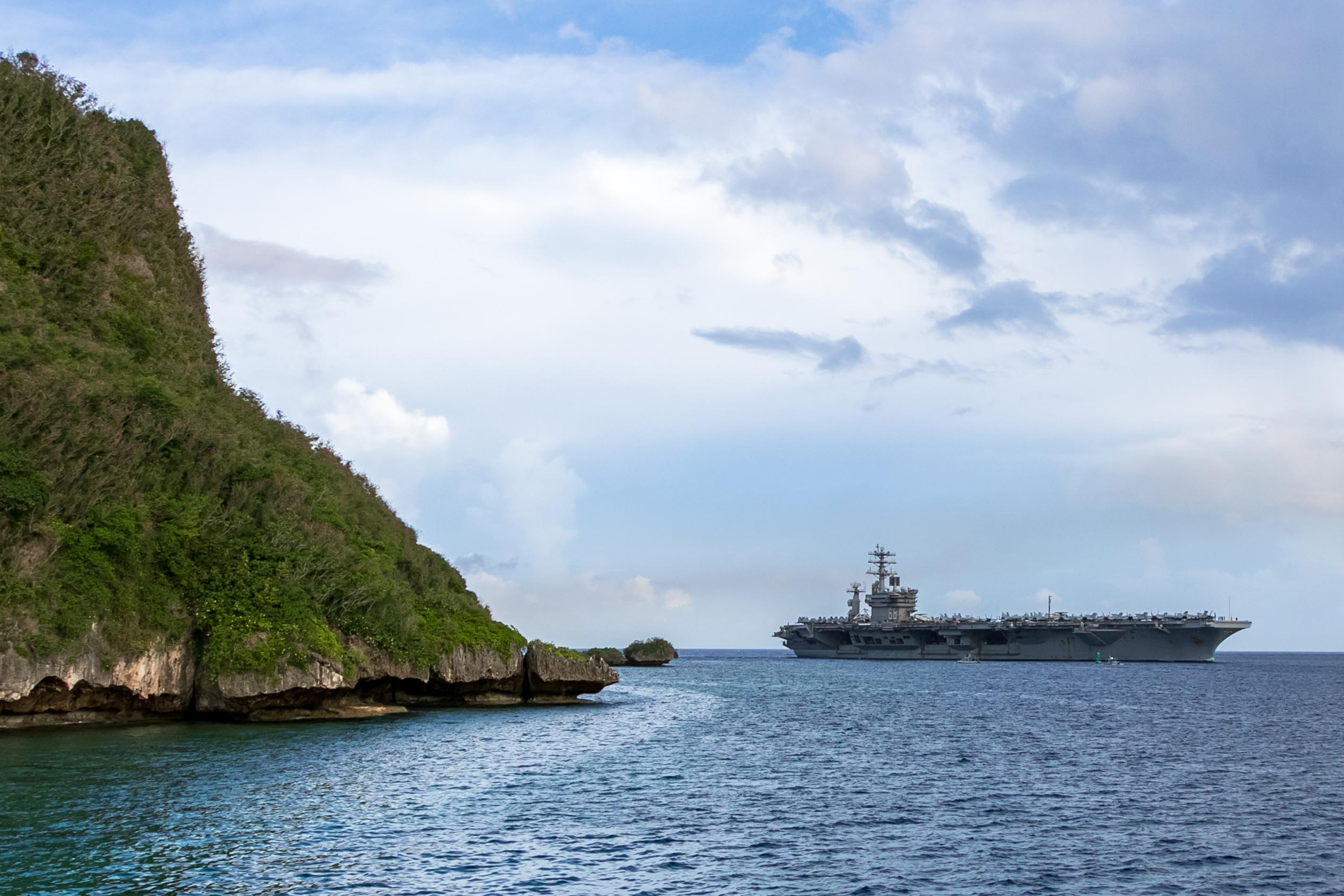 SANTA RITA, Guam (June 24, 2020) The aircraft carrier USS Nimitz (CVN 68) enters Apra Harbor prior to mooring at Naval Base Guam for a scheduled port visit. Nimitz, the flagship of Carrier Strike Group 11, is deployed conducting maritime security operations and theater cooperation efforts.